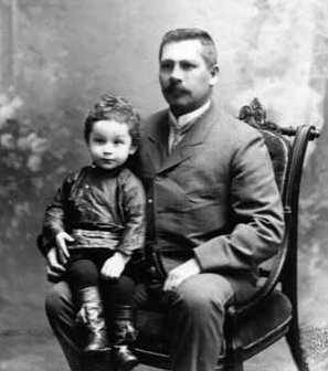 Astronomer of Kharkiv observatory Aleksandr Varsonofievich Mikhailov and his son, also a future astronomer Vladimir Aleksandrovich Mikhailov